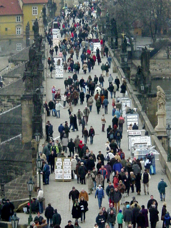 The Charles Bridge from the Old Town bridge tower.